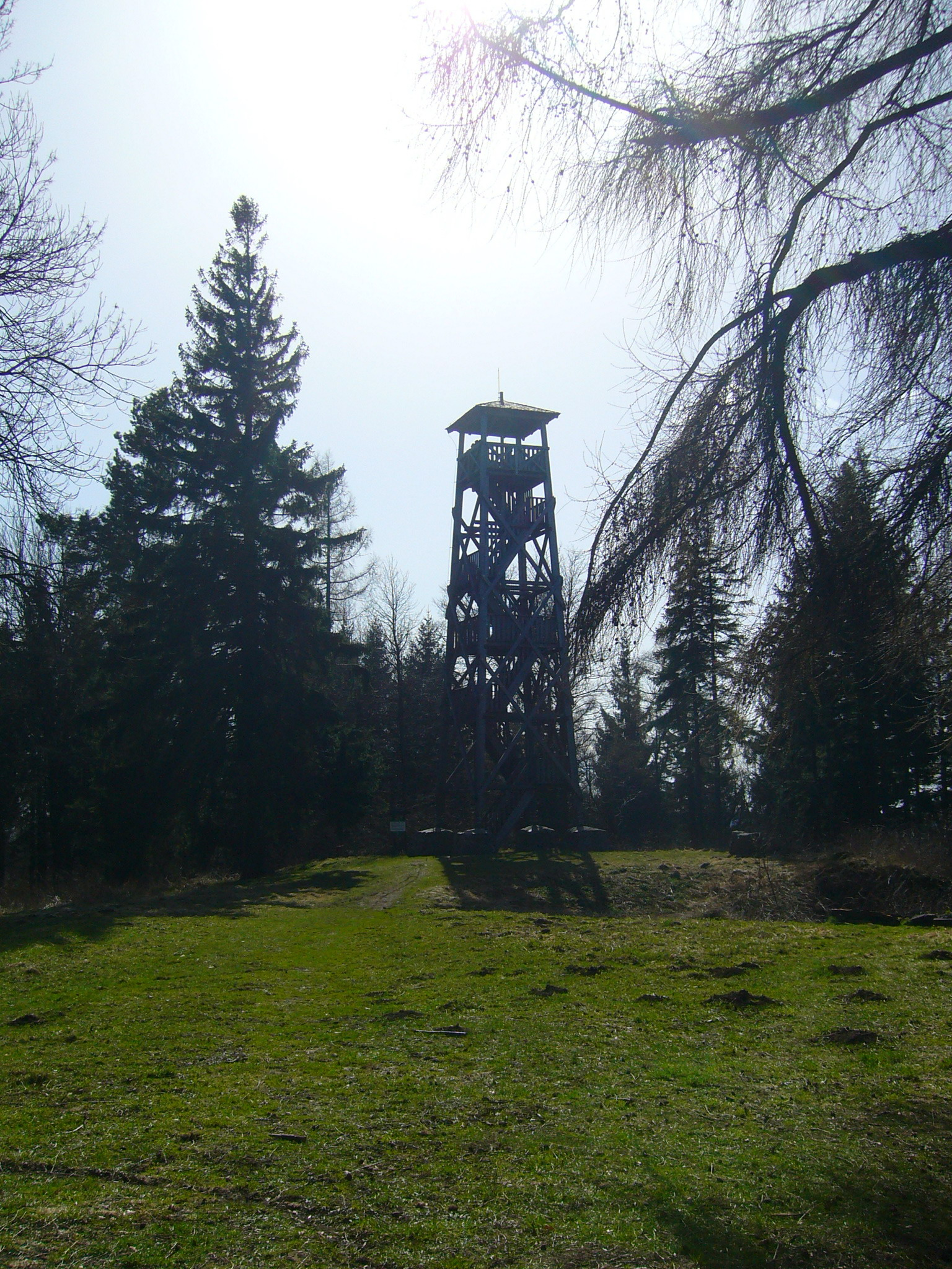 Watchtower on Velký Roudný hill